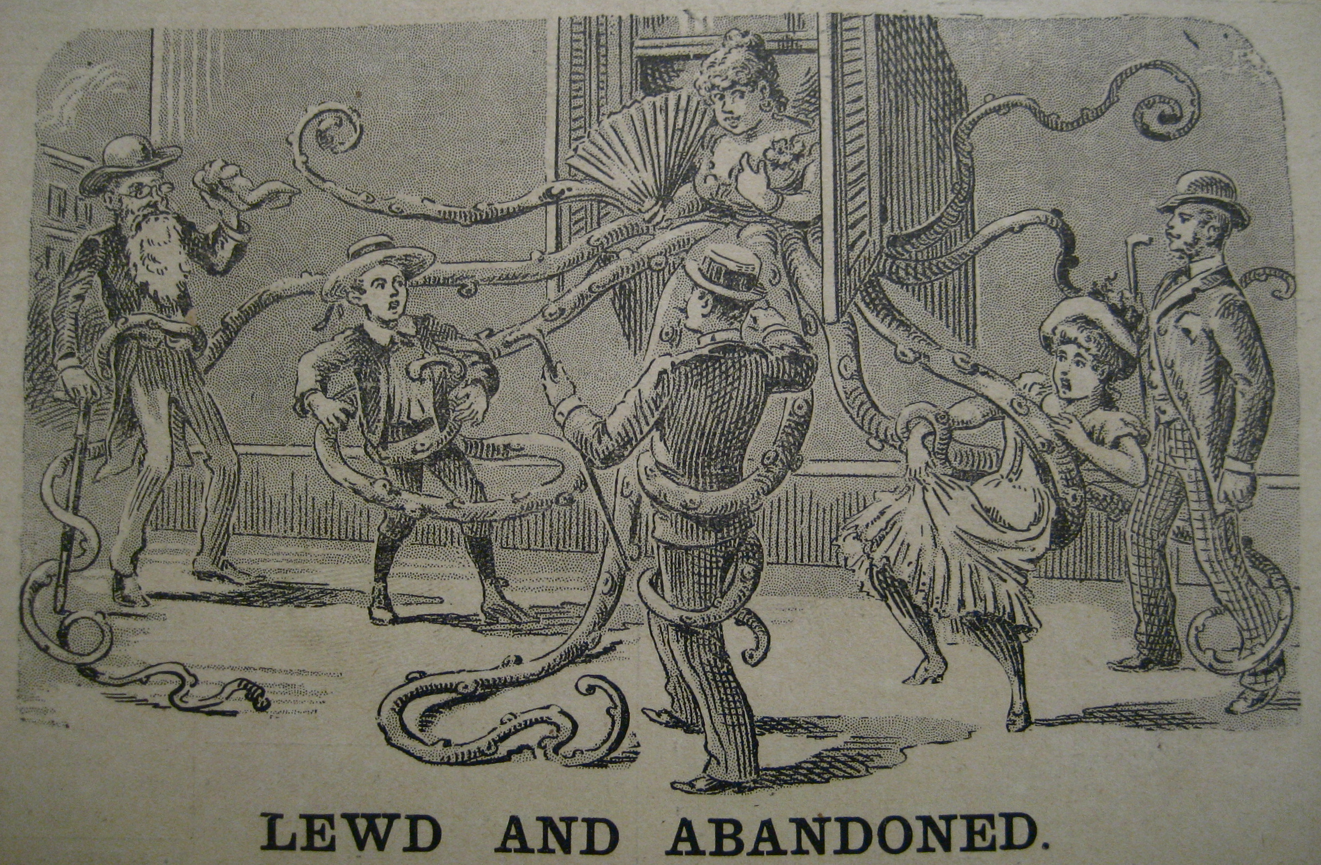 "Lewd and Abandoned". Caricature of notorious New Orleans prostitute Emma Johnson, from "The Mascot", 21 May 1892. Johnson is depicted in a window with a fan, with tentacles reaching out to the sidewalk entrapping passers by, including men, an old man, an adolsecent boy, and a young woman.